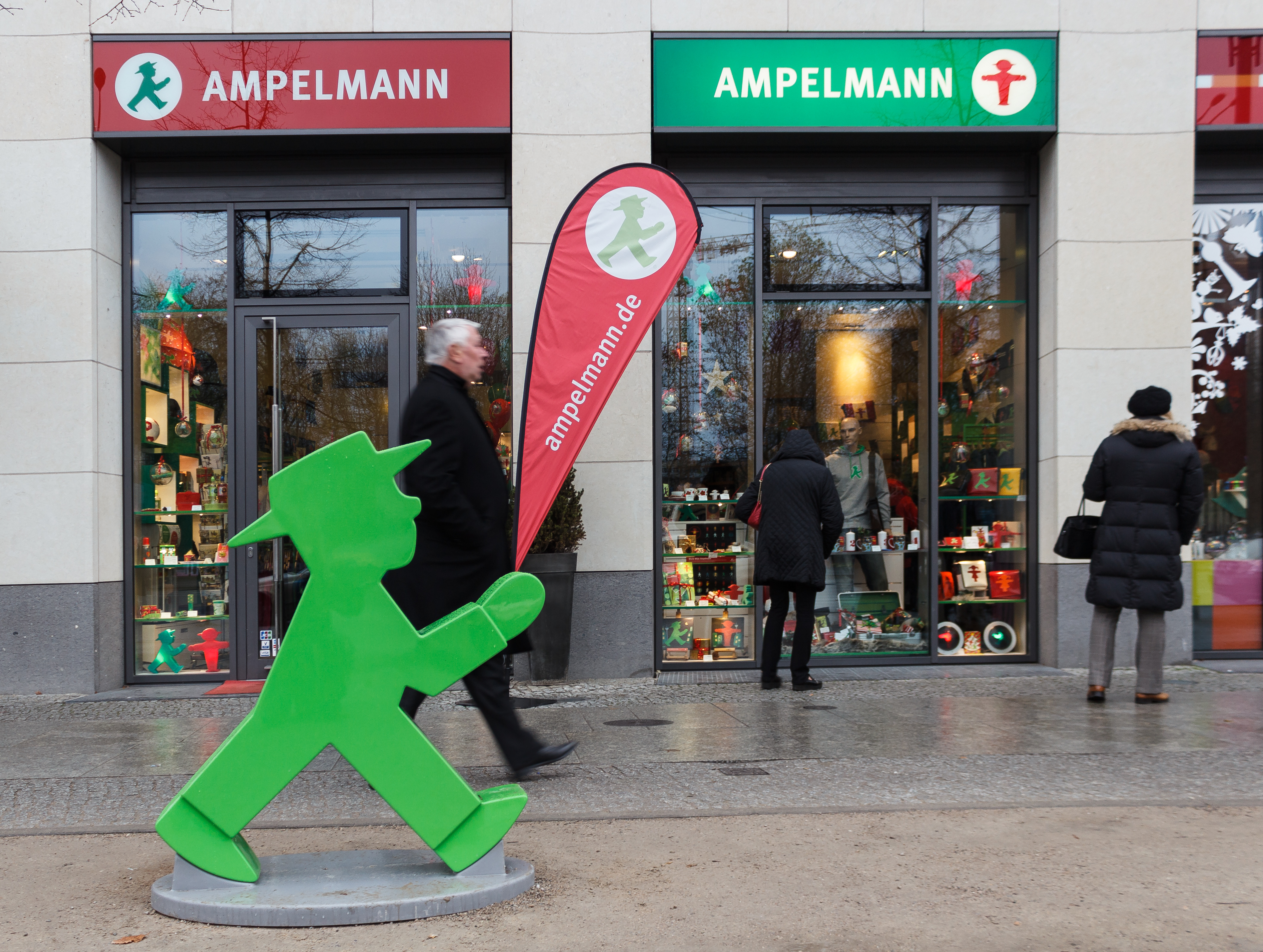 A green Ampelmännchen figure in front of the Ampelmann Shop in DomAquarée, Karl-Liebknecht-Straße 5, Berlin, Germany.